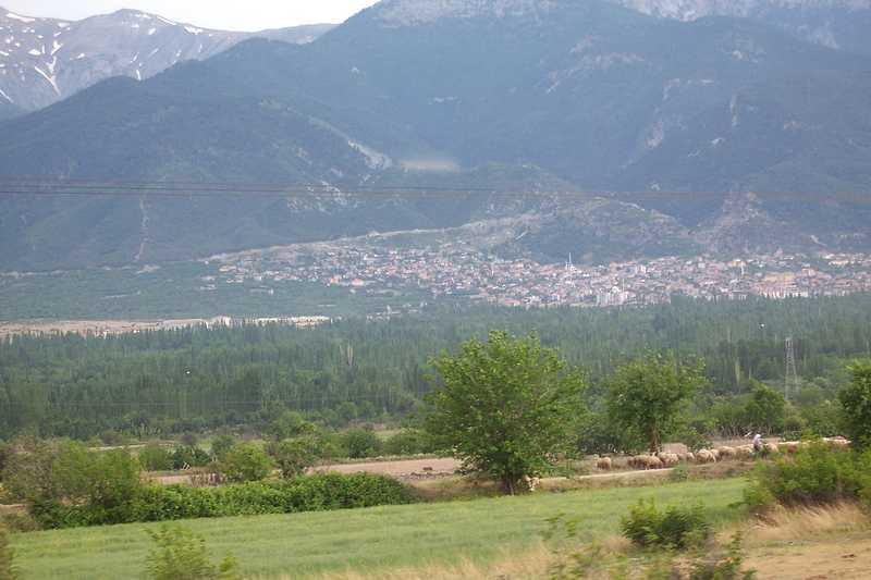 Mountain Honaz and the image of Honaz city in Denizli in Turkey. The photo taken in 2005 by Blaberus